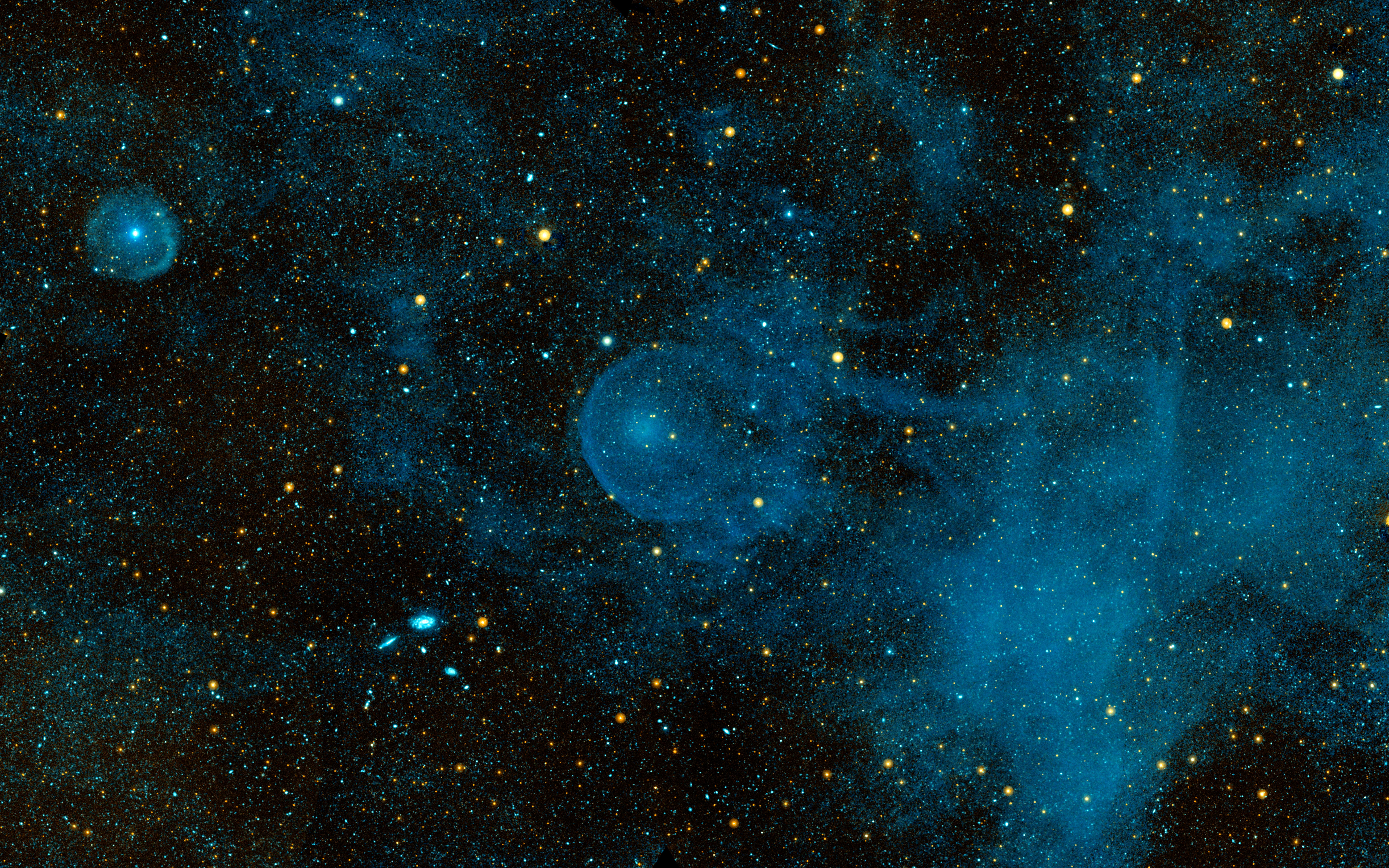 A runaway star, plowing through the depths of space and piling up interstellar material before it, can be seen in this ultraviolet image from NASA's Galaxy Evolution Explorer. The star, called CW Leo, is hurtling through space at about 204,000 miles per hour (91 kilometers per second), or roughly 265 times the speed of sound on Earth. It is shedding its own atmosphere to form a sooty shell of discarded material. This shell can be seen in the center of this image as a bright circular blob. CW Leo is moving from right to left in this image. It is travelling so quickly through the surrounding material that it has formed a semi-circular bow shock in front of itself, like a boat moving through water. This bow shock is made of superheated gas, which flows around the star and is left behind in its turbulent wake. This blown-out bubble is 2.7 light-years across, which is more than half the distance from our sun to the nearest star, or 2,100 times the size of Pluto's orbit. The size of the bubble (called the "astrosheath") has allowed astronomers to estimate that CW Leo has been shedding its atmosphere for about 70,000 years. This is part of the star's natural life cycle as it runs out of hydrogen fuel and gradually throws off its outer layers to expose its bare, dying core. This core is called a white dwarf, and is the end product of all low-mass stars like our sun. CW Leo is the second runaway star to be observed with the Galaxy Evolution Explorer. The first, Mira, was observed by the telescope back in 2006. This image is the combination of near-ultraviolet data, shown in yellow, and far-ultraviolet data, shown in blue.